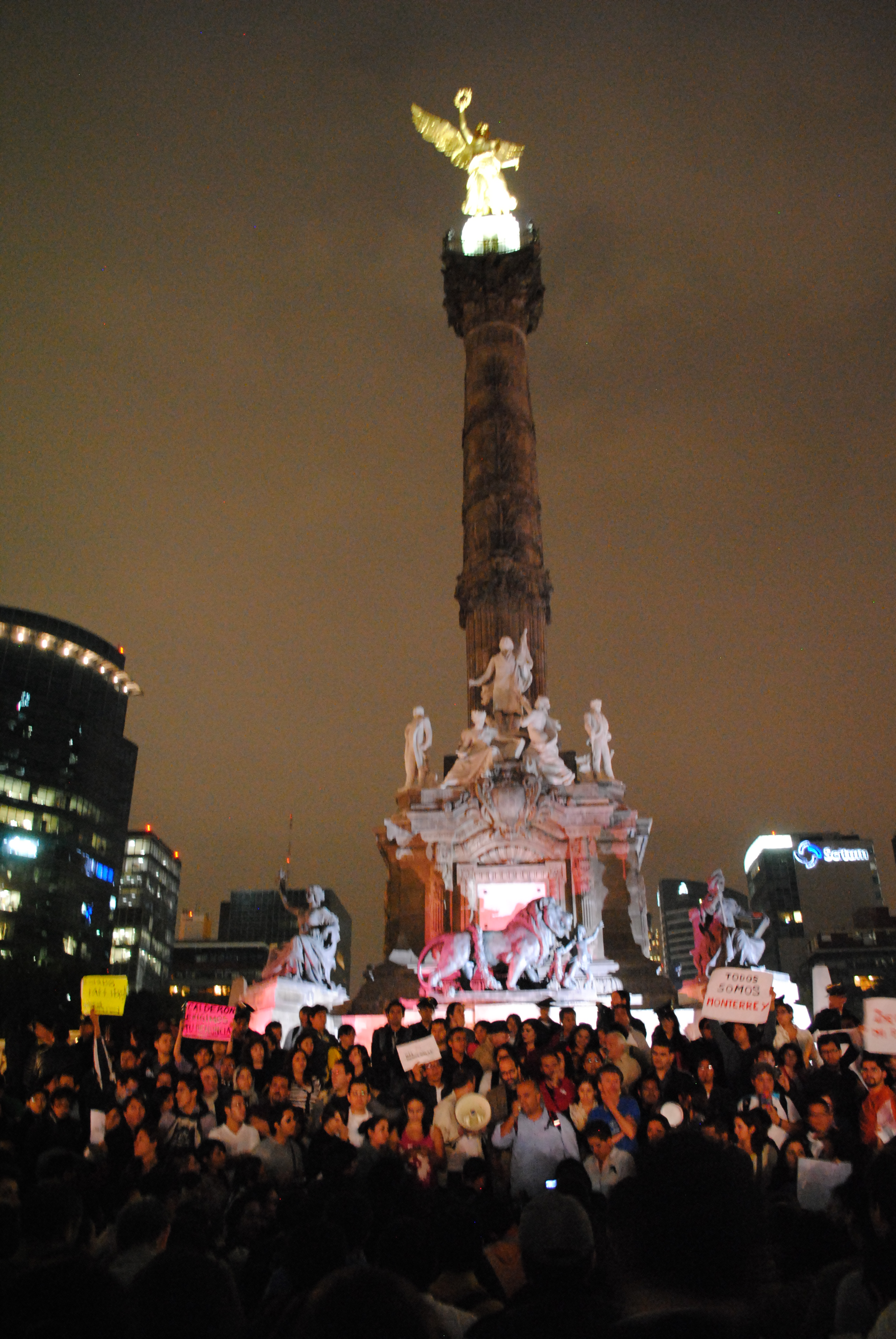 Over 400 people participated in a "cacerolazo" in the the Angel of Independence, as a form of solidarity with the victims in the bombing of the Casino Royale in Monterrey, Nuevo Leon.